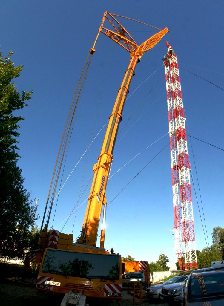 Changing the mast at the Freinberg Transmitter in Linz, Austria. A 500t truck mounted crane (Terex Demag AC 500-2) is used. The new mast (right) has a height of 127 meters. Note the cabin, which is used to lift several workers, near the top of the mast.